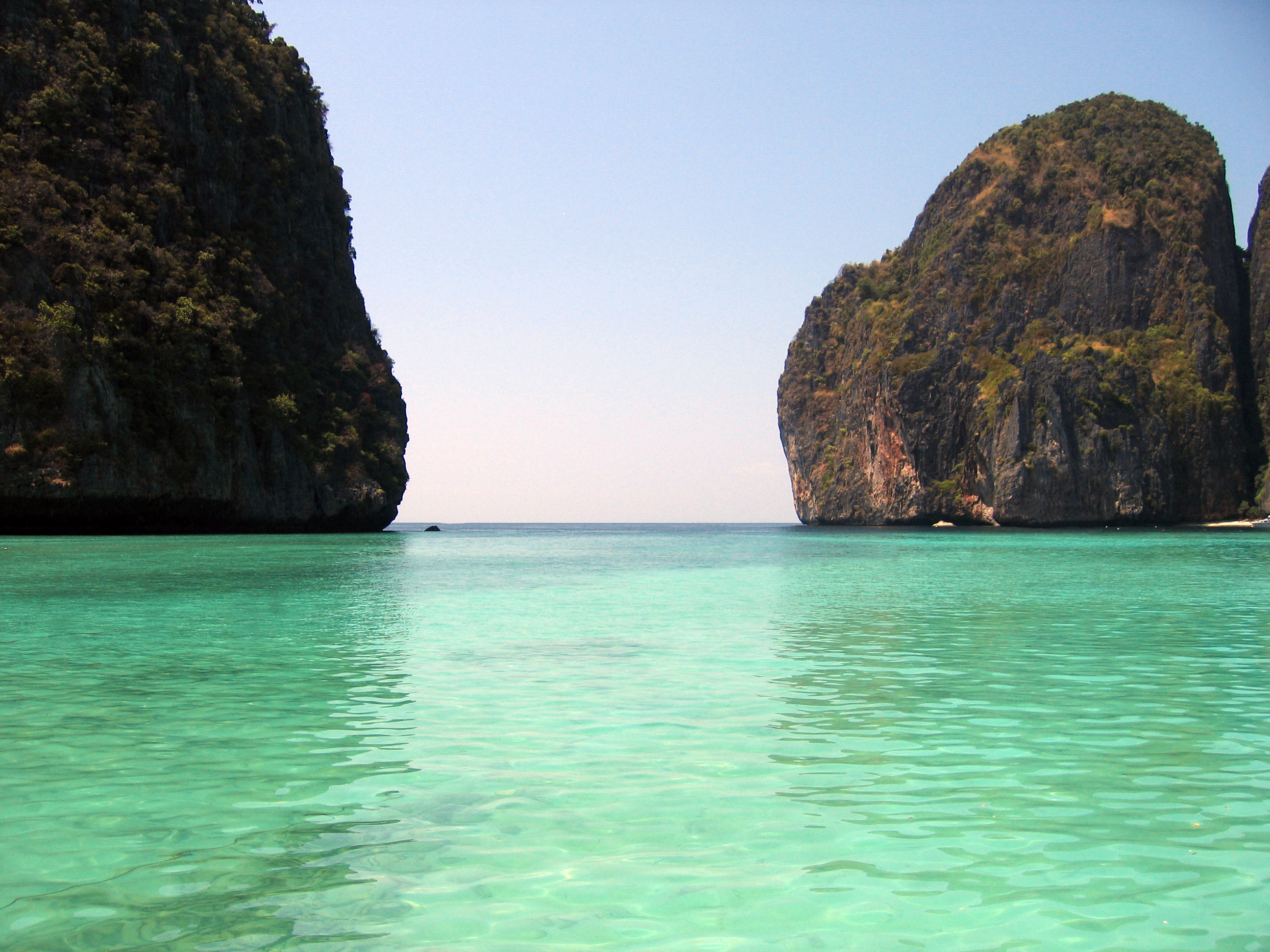 Maya Bay, Phi Phi Ley island, Thailand. The location of the film "The Beach" with Leonardo DiCaprio